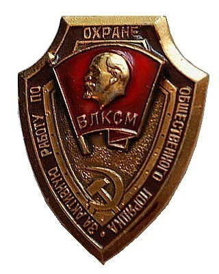 Badge Lenin Komsomol For active work on public security